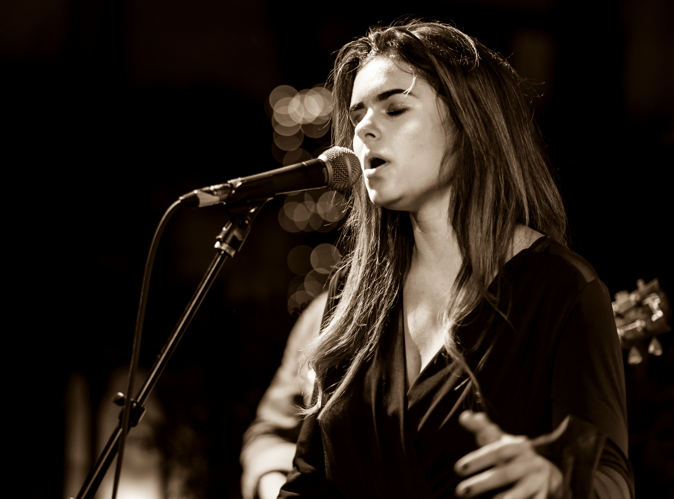 Jacquie Lee performing live at Baño Flaco at The Rosey Oyster Bar at the Hollywood Roosevelt Hotel, in Los Angeles, California, on Wednesday, October 18, 2017, presented by Ones To Watch.